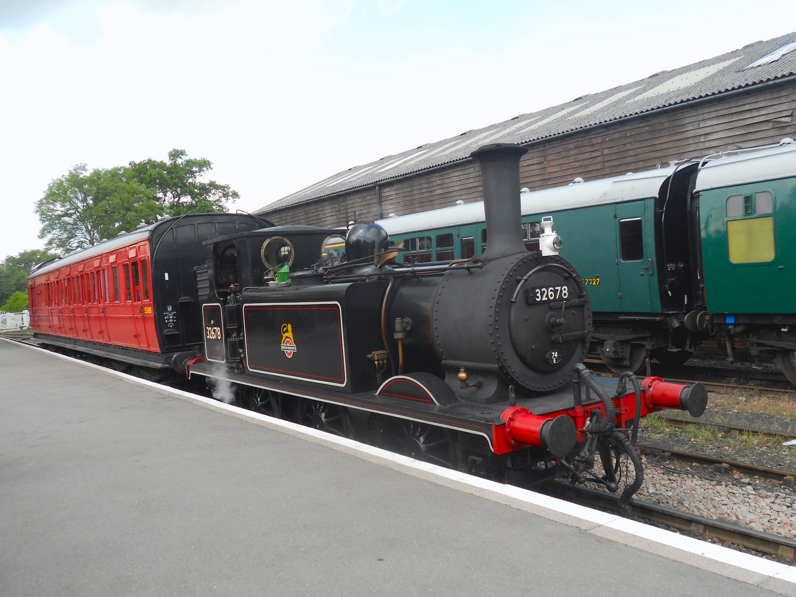 British Railways 0-6-0T Class A1X/Terrier No. 32678 and Birdcage Brake Coach at Tenterden Town on the Kent and East Sussex Railway